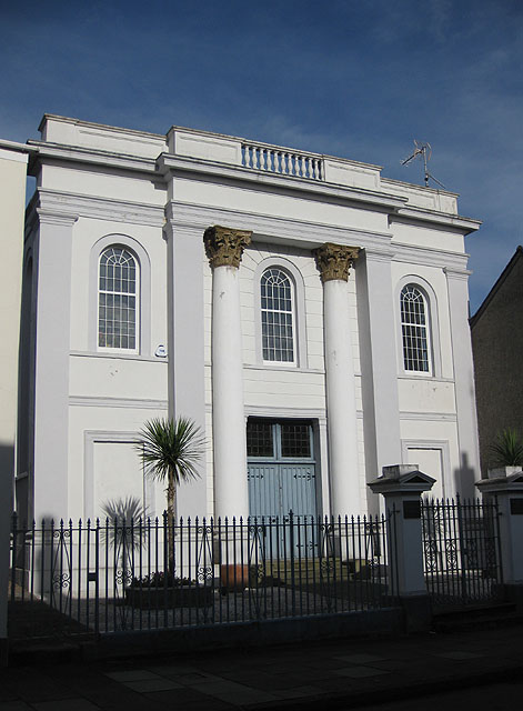 Glendower House, Monmouth Formerly the Congregational Chapel which was converted in May, 2002. The building is set back slightly and hemmed in by others, making a view of the complete building impossible.